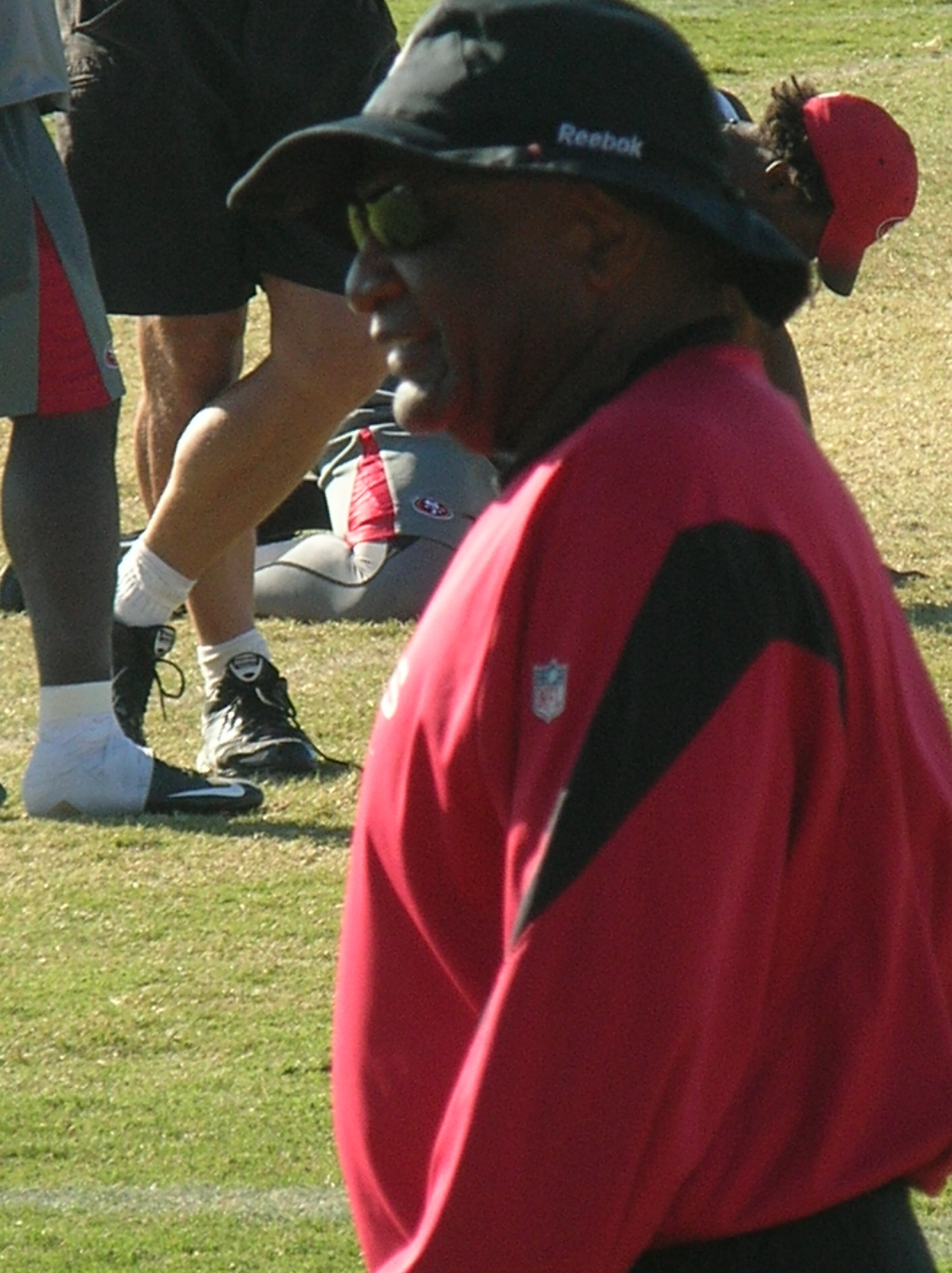 San Francisco 49ers offensive coordinator Jimmy Raye at training camp in Santa Clara, California.